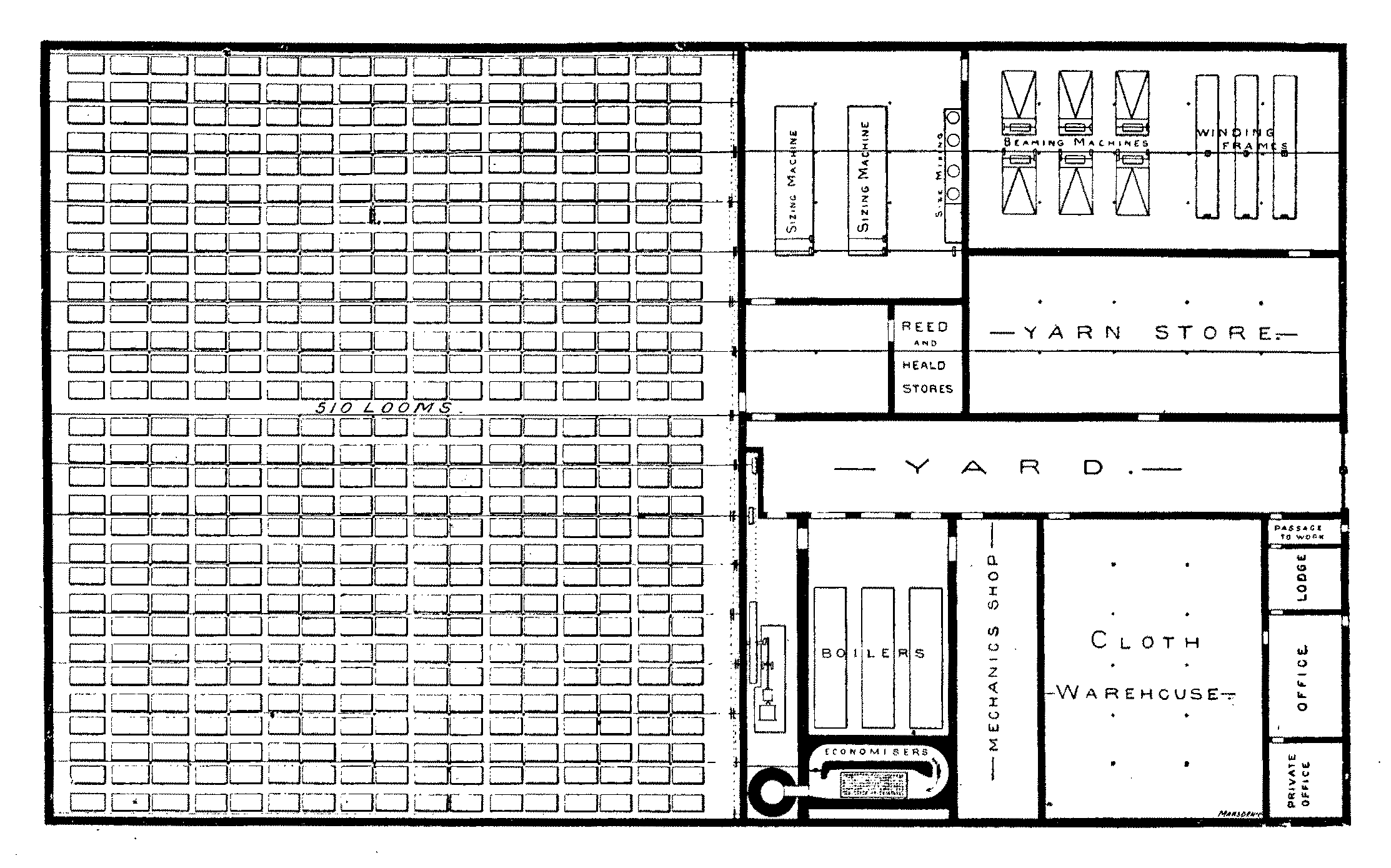 Plan of a weaving shed: Images from Marsden 1892 book on Cotton Weaving. *Marsden, Richard (1895) (in english) Cotton Weaving: Its Development, Principles, and Practice, George Bell & Sons, pp. 584 Retrieved on Feb 2009.